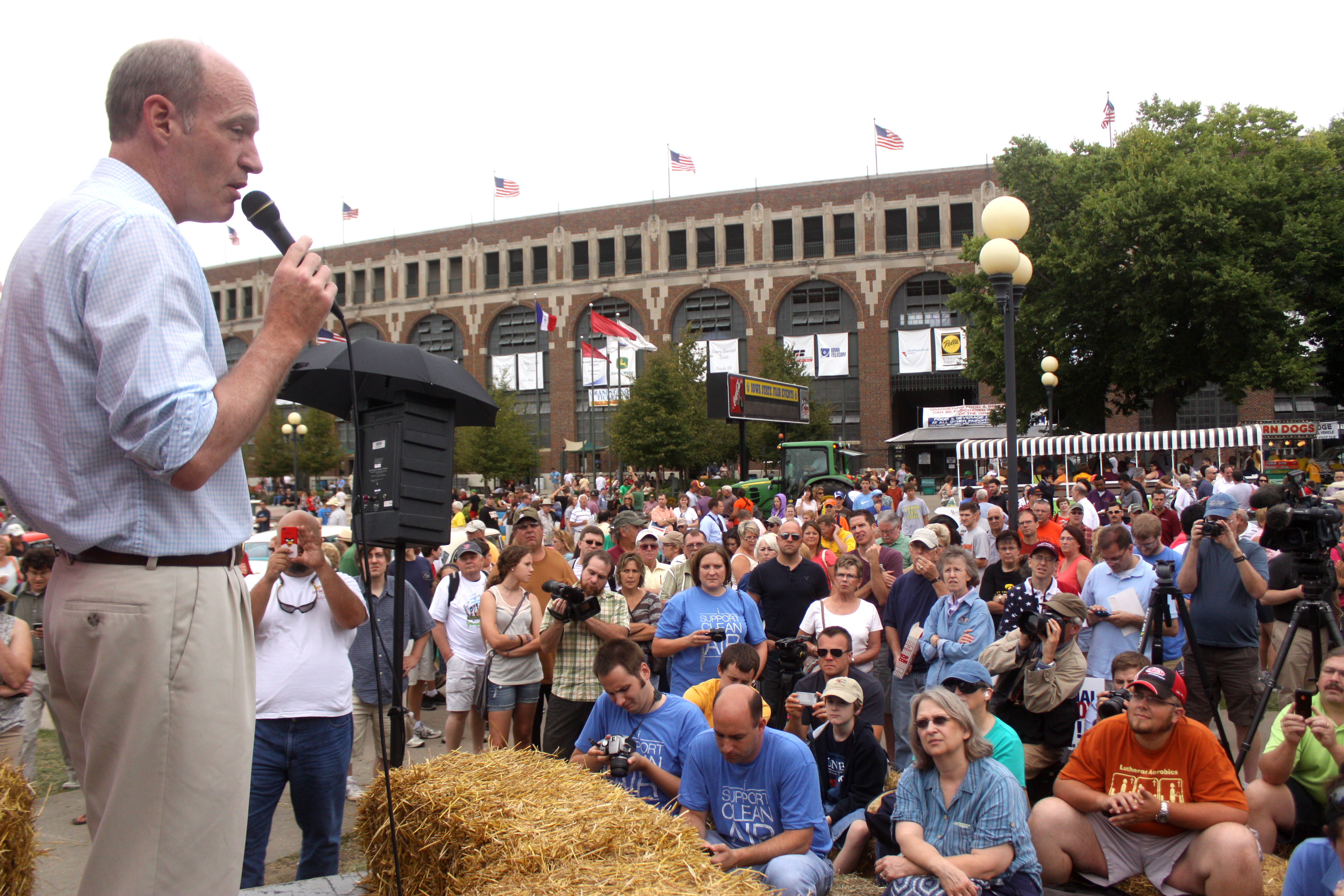 Thaddeus "Thad" McCotter at the Iowa State Fair in Des Moines, Iowa, ahead of the Ames Straw Poll.